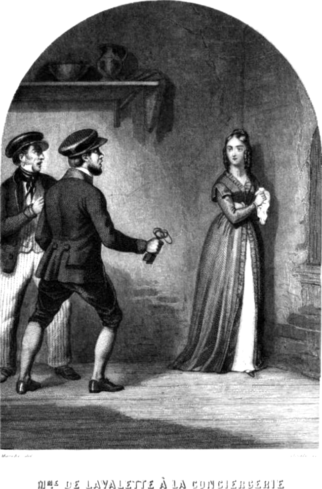 Antoine Marie Chamans, comte de Lavalette's Prison Break from the Conciergerie.